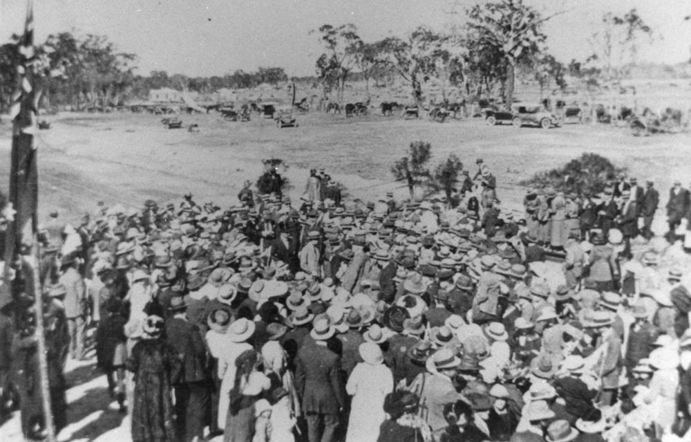 Large crowd gathered for a royal visit, Amiens, 1920 The crowd was gathered to welcome H.R.H. Prince of Wales when he was in Amiens to open the railway branch line from Cottonvale to Amiens. At this time, Amiens was the main centre of the Pikedale Soldier Settlement. (Description supplied with photograph).